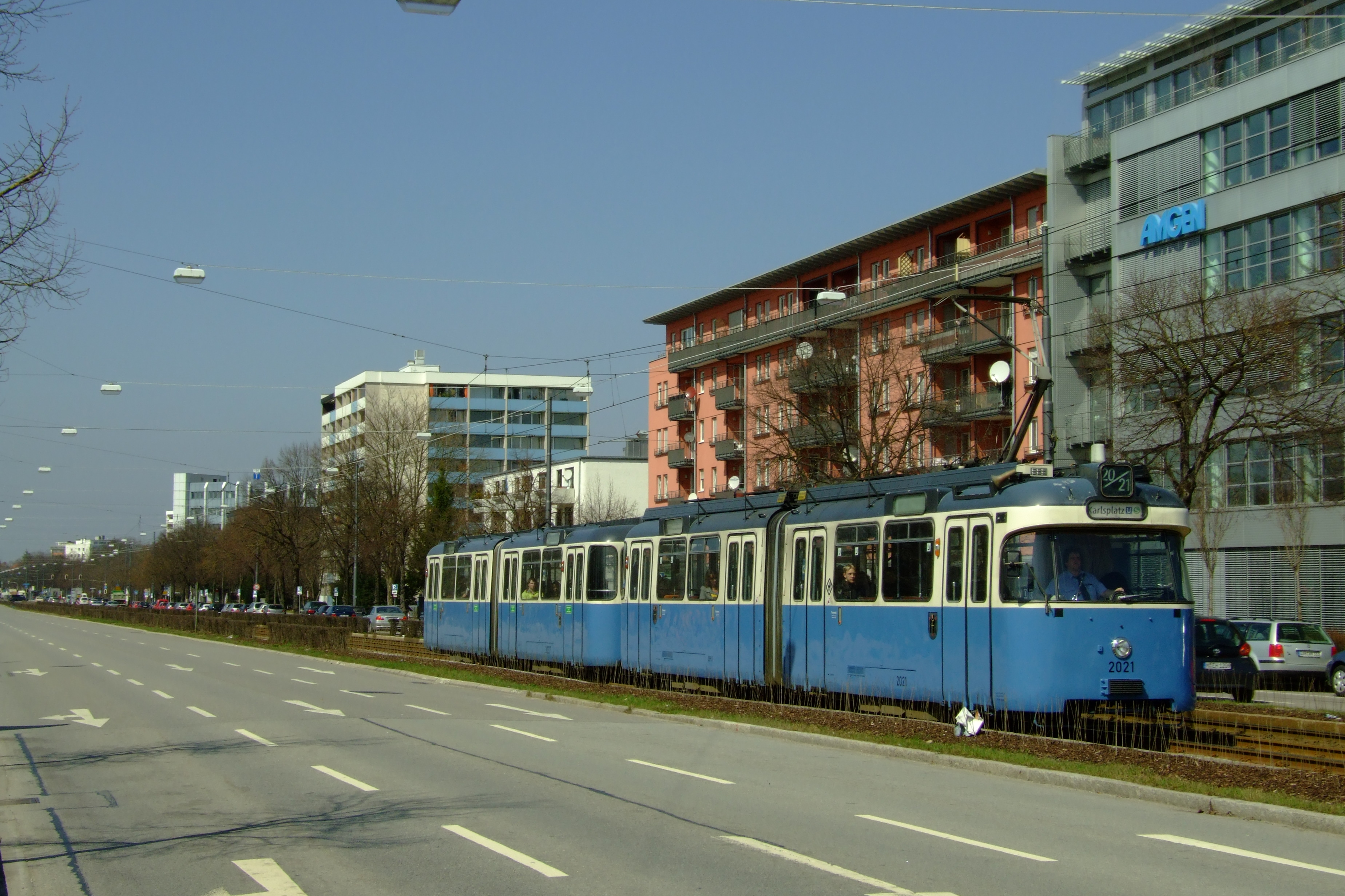 Tram 2021 (type P3.16/p3.17) is riding on the dachauer street and aproaches the station hanauer street.